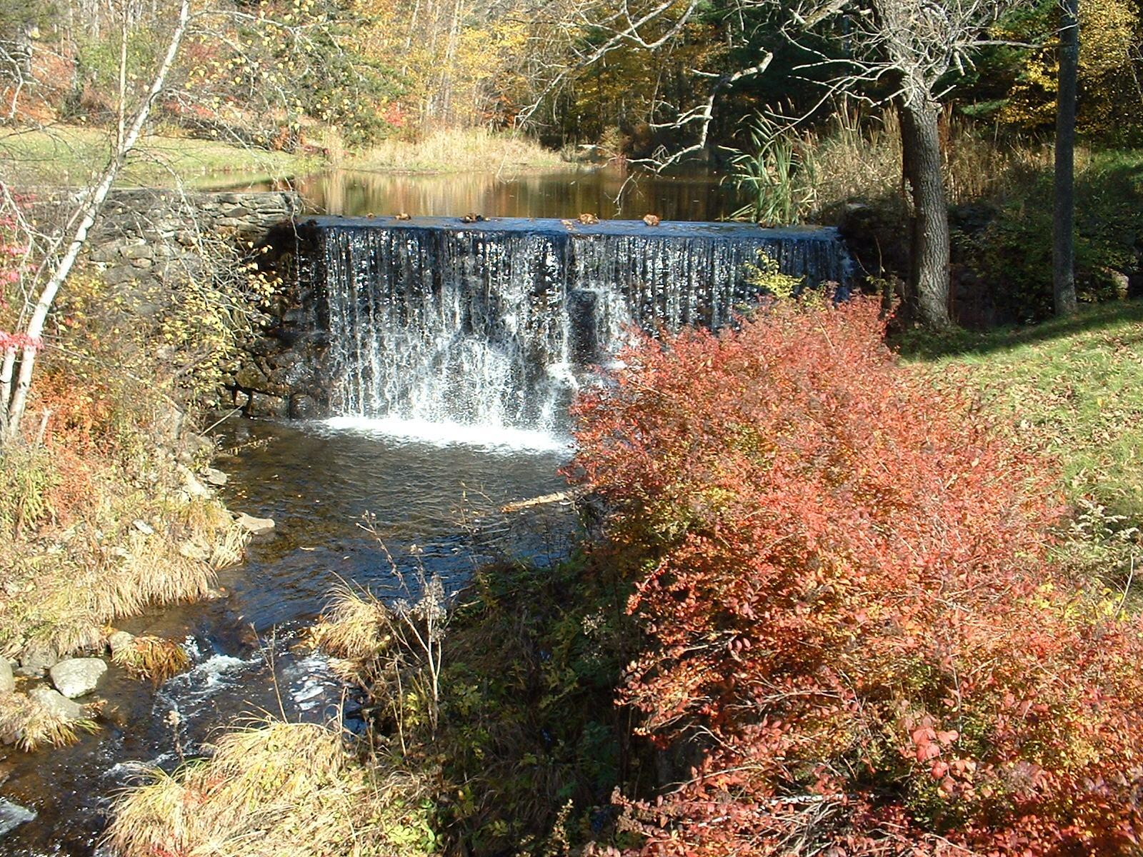 The Dell Dam, located near the junction of the Heath Brook and Mill Brook in the village of Dell in Heath, Massachusetts. Dell Dam, Jacksonville Stage Rd (Rte. 8A) and Dell Rd, Heath, MA